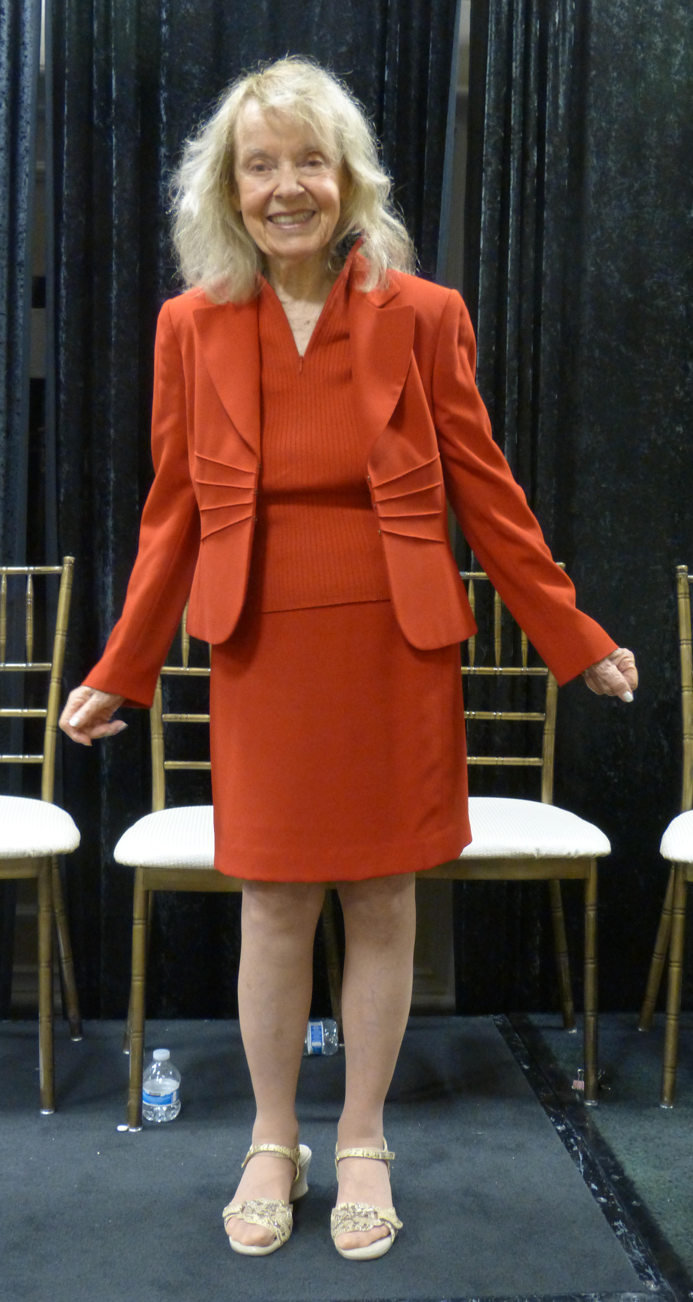 A photo of Janet Waldo